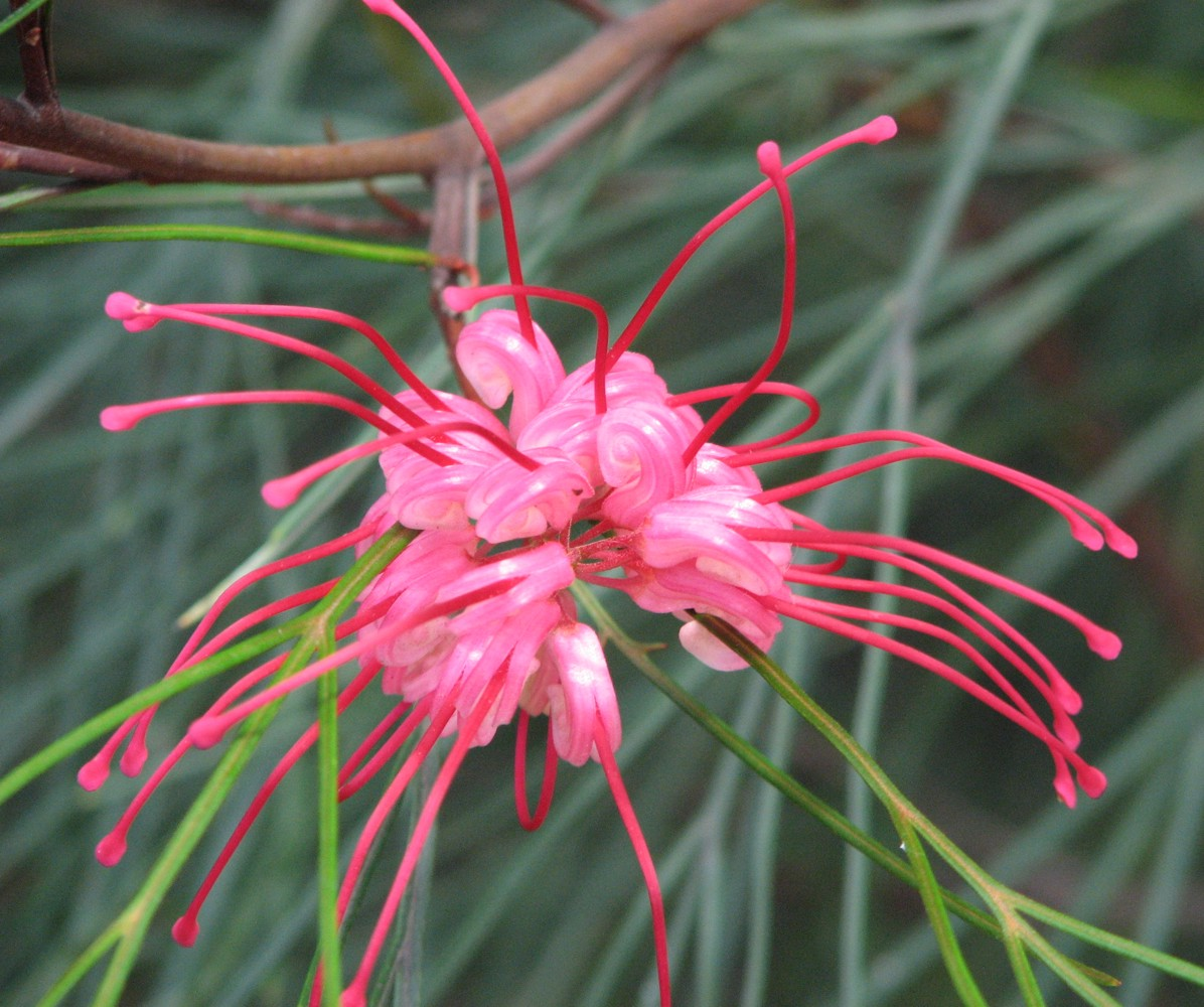 Grevillea longistyla, Maranoa Gardens, Balwyn, Victoria, Australia.